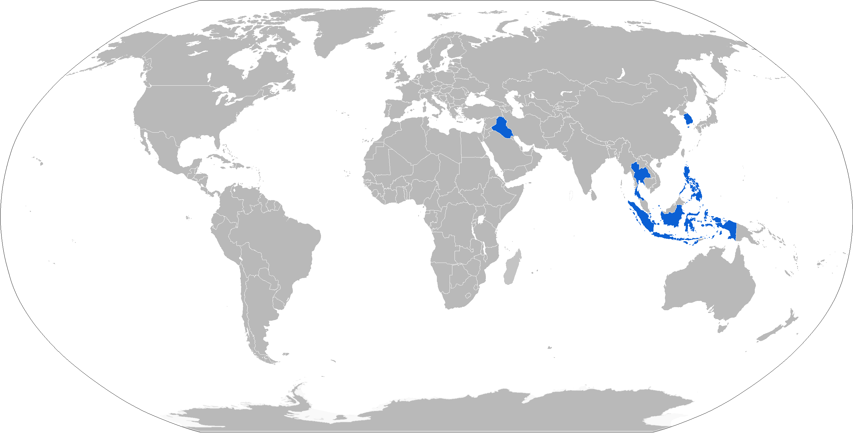 Map with T-50 operators in blue